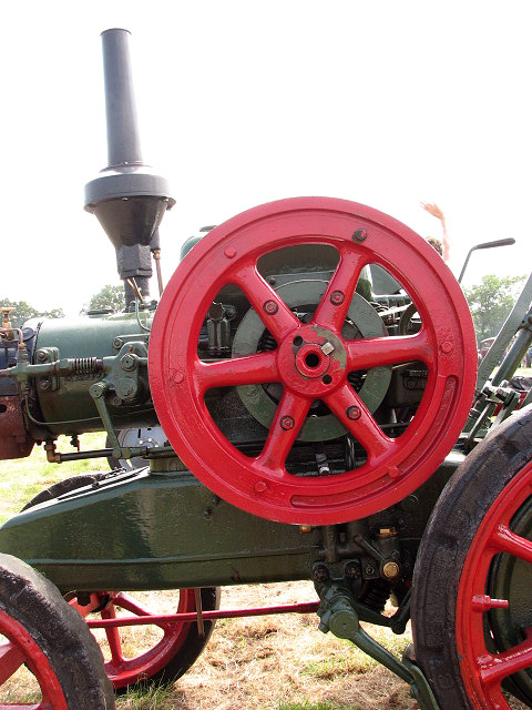 Worstead Festival 2008, Norfolk, Great Britain - Lanz Model HL 12 with a 12 horsepower Diesel engine, built in 1923, detail.